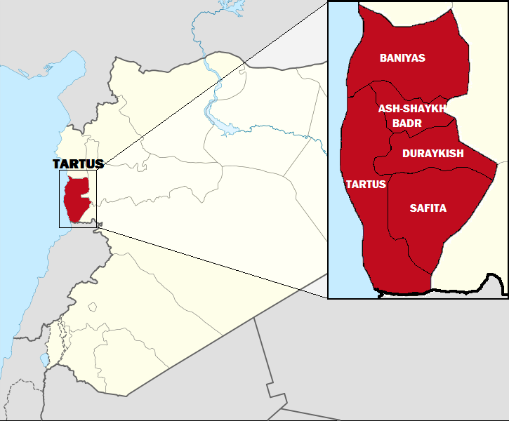 Tartus Governorate on Syria Map with its subdistricts.